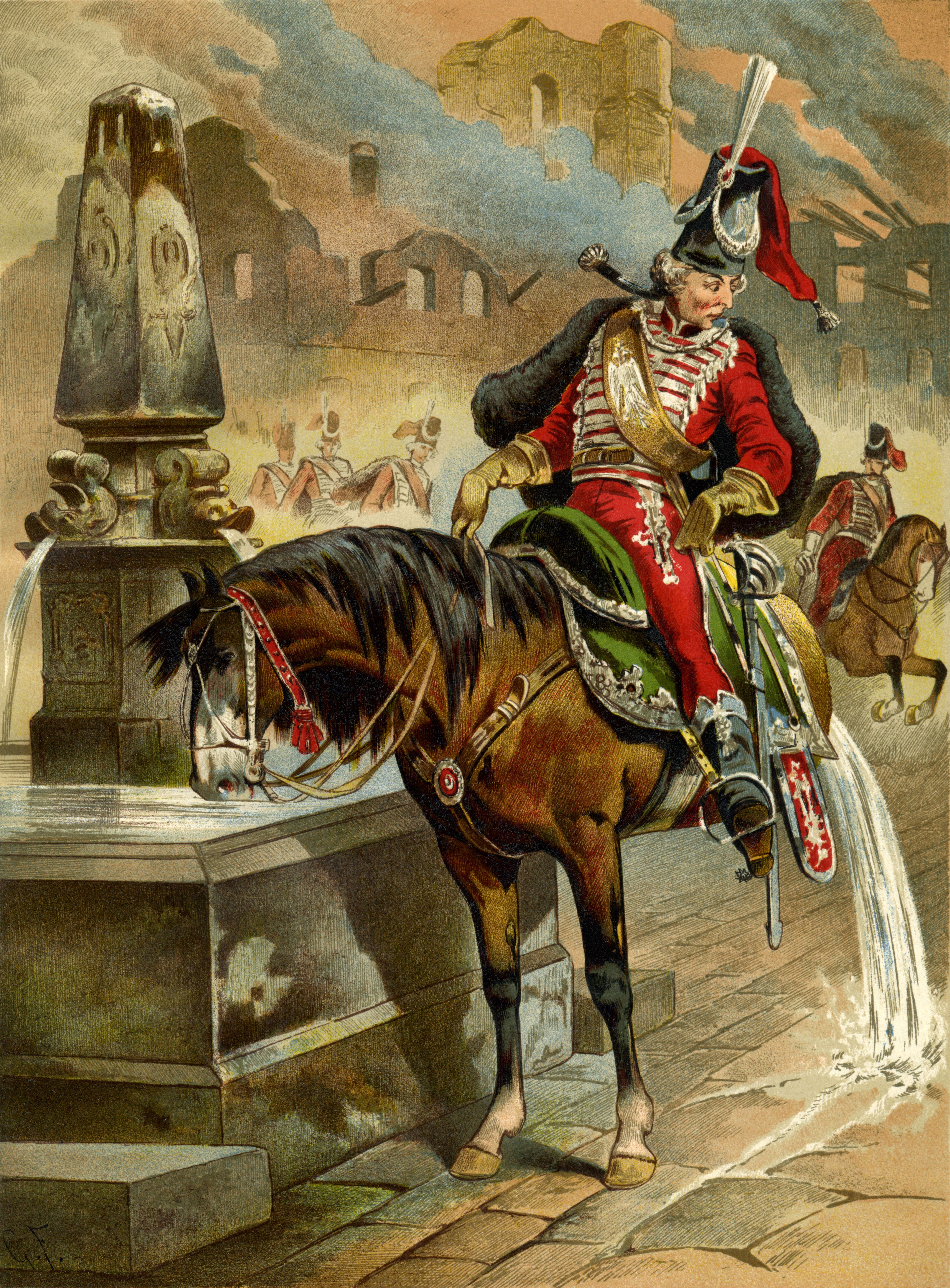 Pic. 4. Baron Münchhausen with a half-horse.